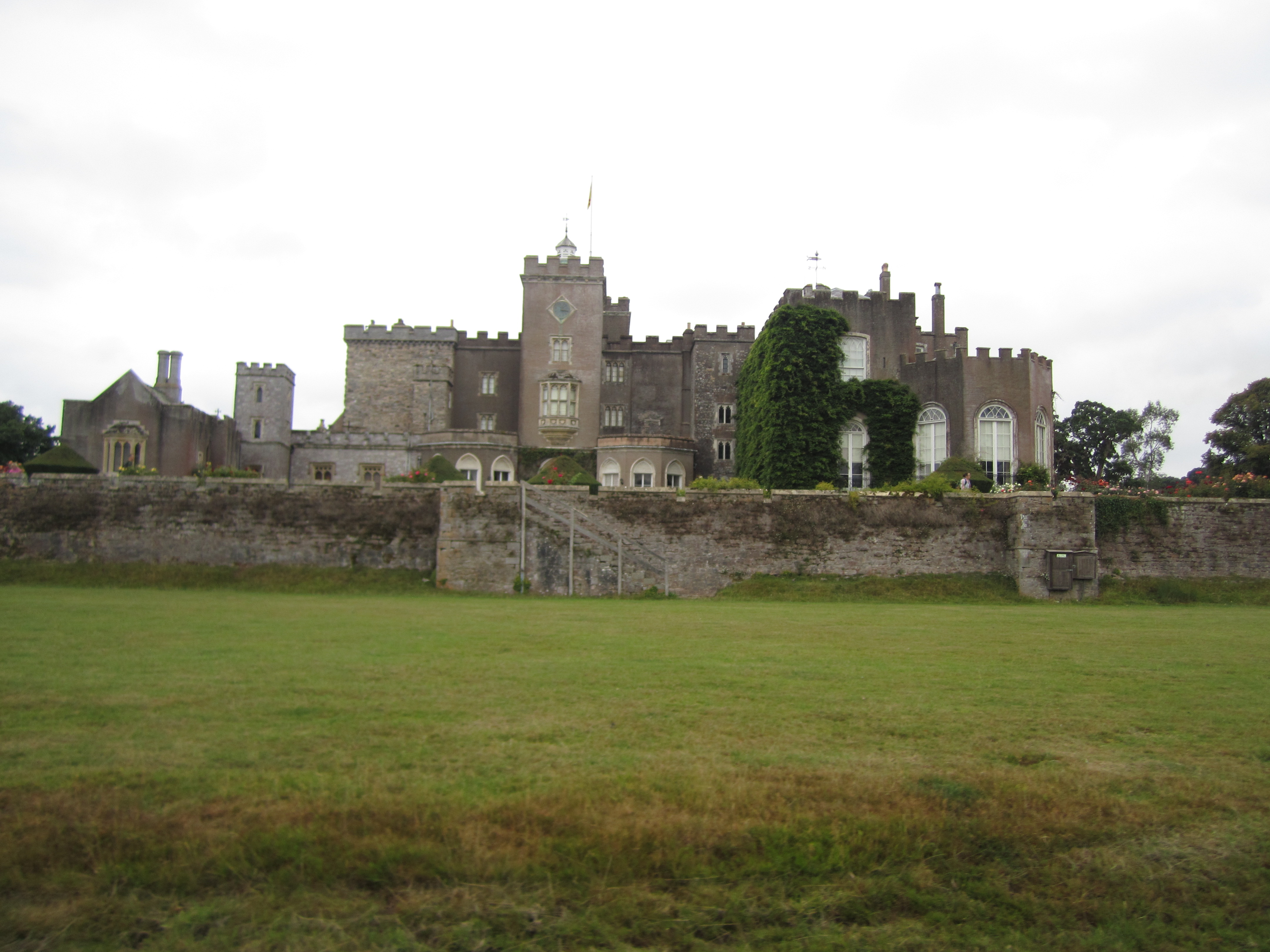 Powderham castle taken from the deer park, showing how it is made of sections of varying age. The chapel is on the far left and the oldest tower on the middle left